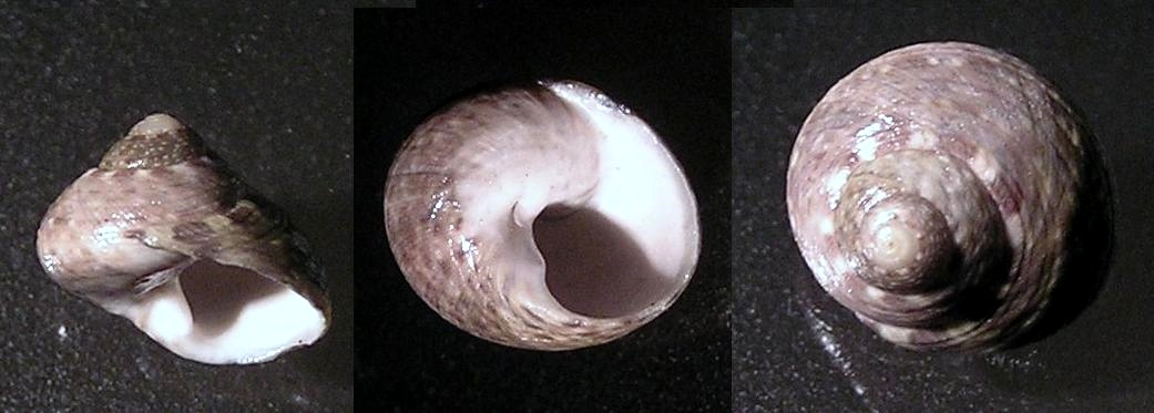 Phorcus mutabilis (Philippi, 1846) , a top snail from the family Trochidae; Croatia